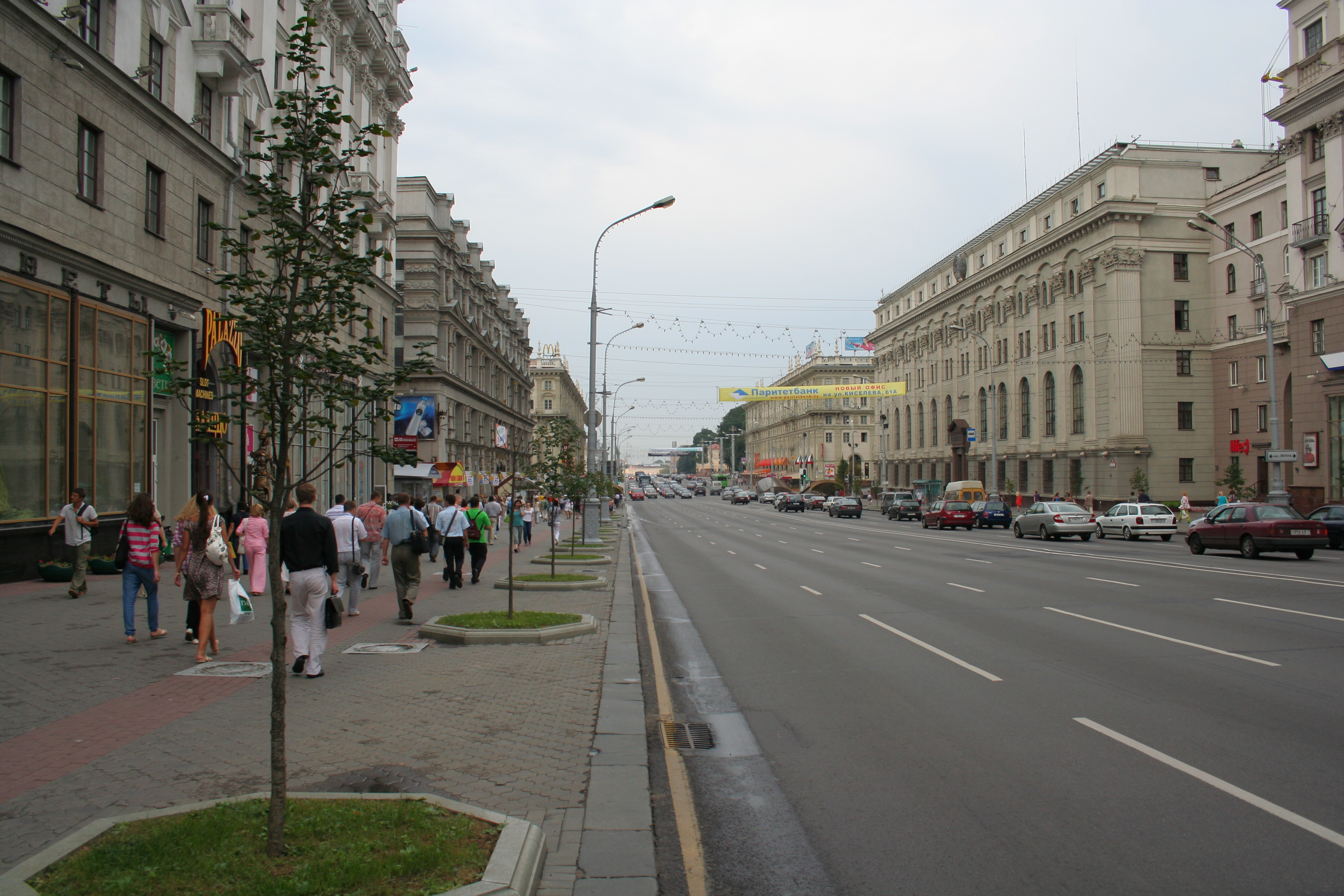 Views of Minsk (Belarus). Independence avenue.